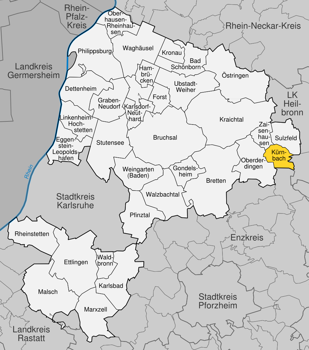 position of Kürnbach within distict of Karlsruhe, Baden-Württemberg, Germany